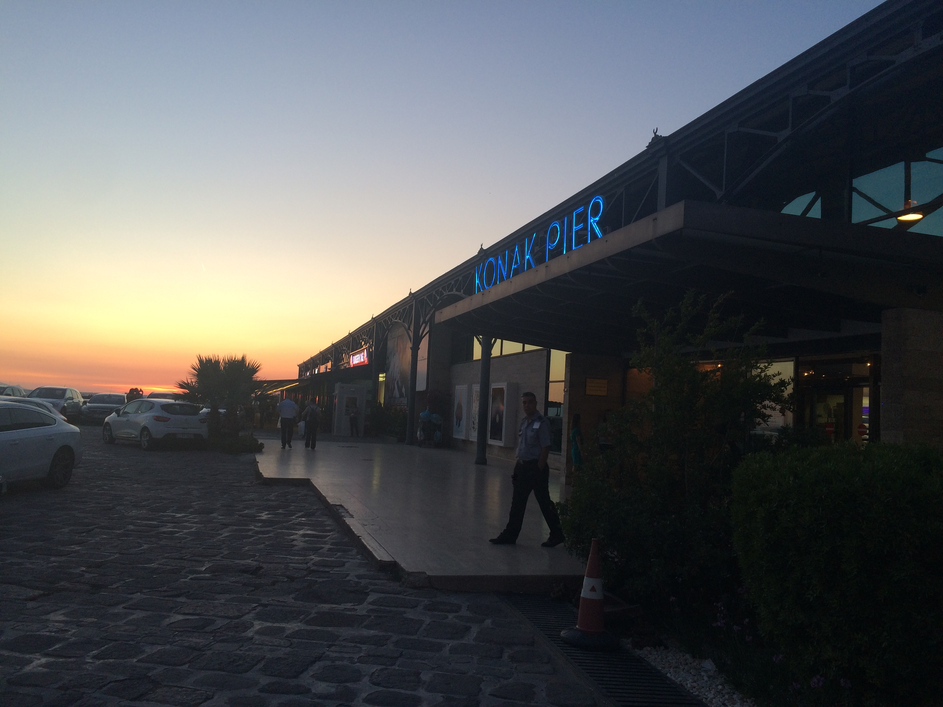 Konak Pier South Façade